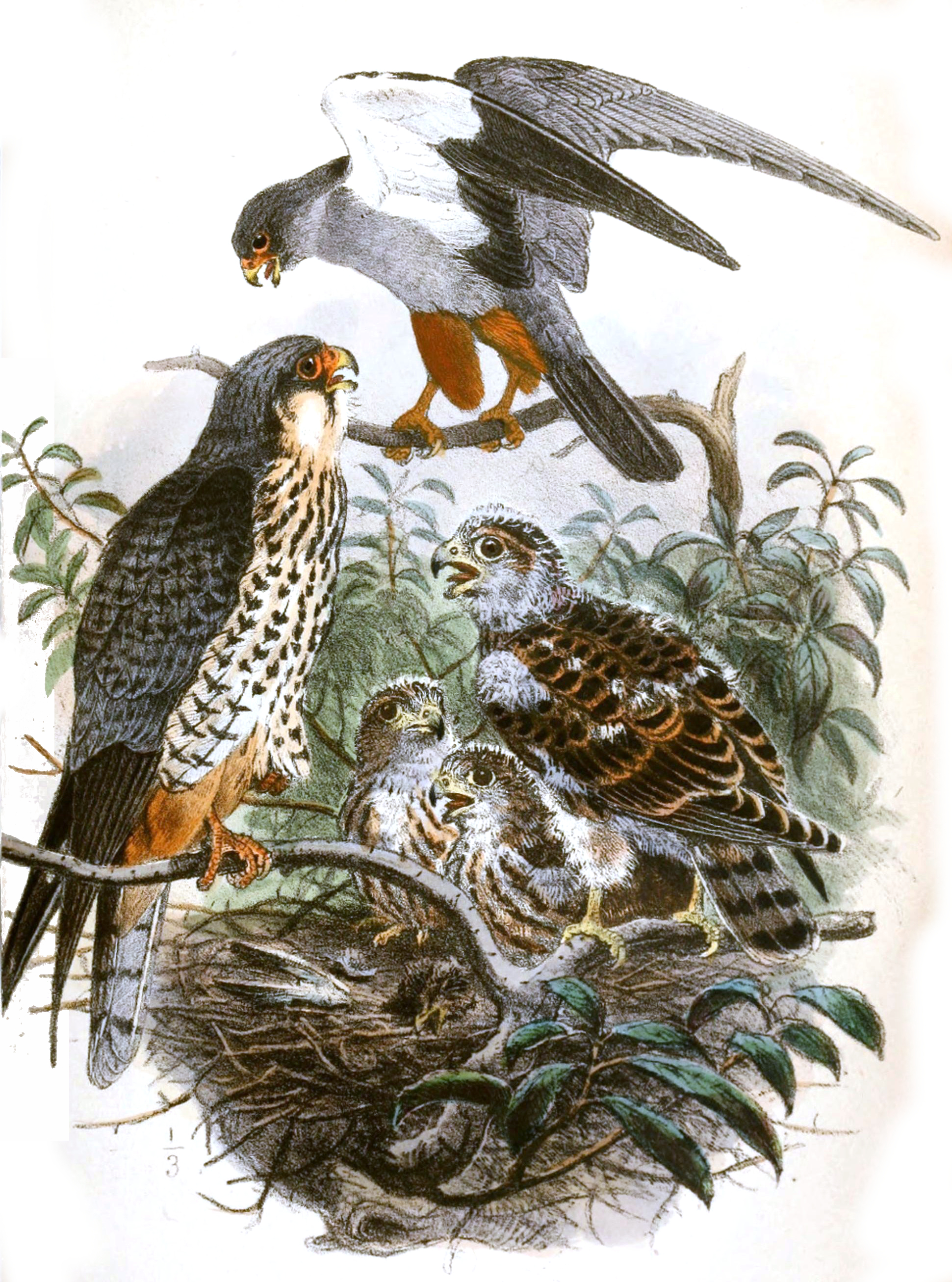 « Erythropus amurensis » = Falco amurensis (Amur Falcon) - pair at nest with youngs